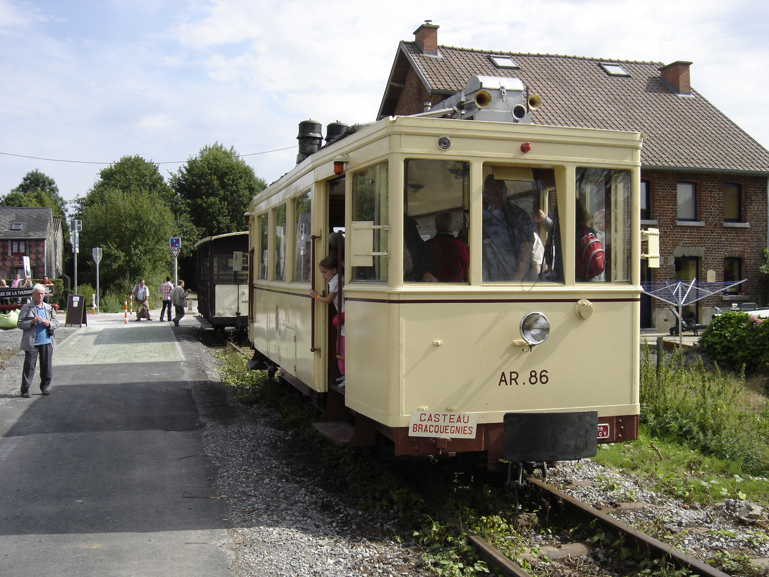 ASVi museum - tramway AR.86 and B.8893 at the Biesme-sous-Thuin terminus on the inaugural day of the new extension